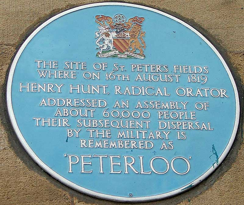 Author: Allan K Preston Picture: A blue plaque on the wall of the Free Trade Hall, commemorating tle Peterloo Massacre on 16 August 1819 in Manchester, UK